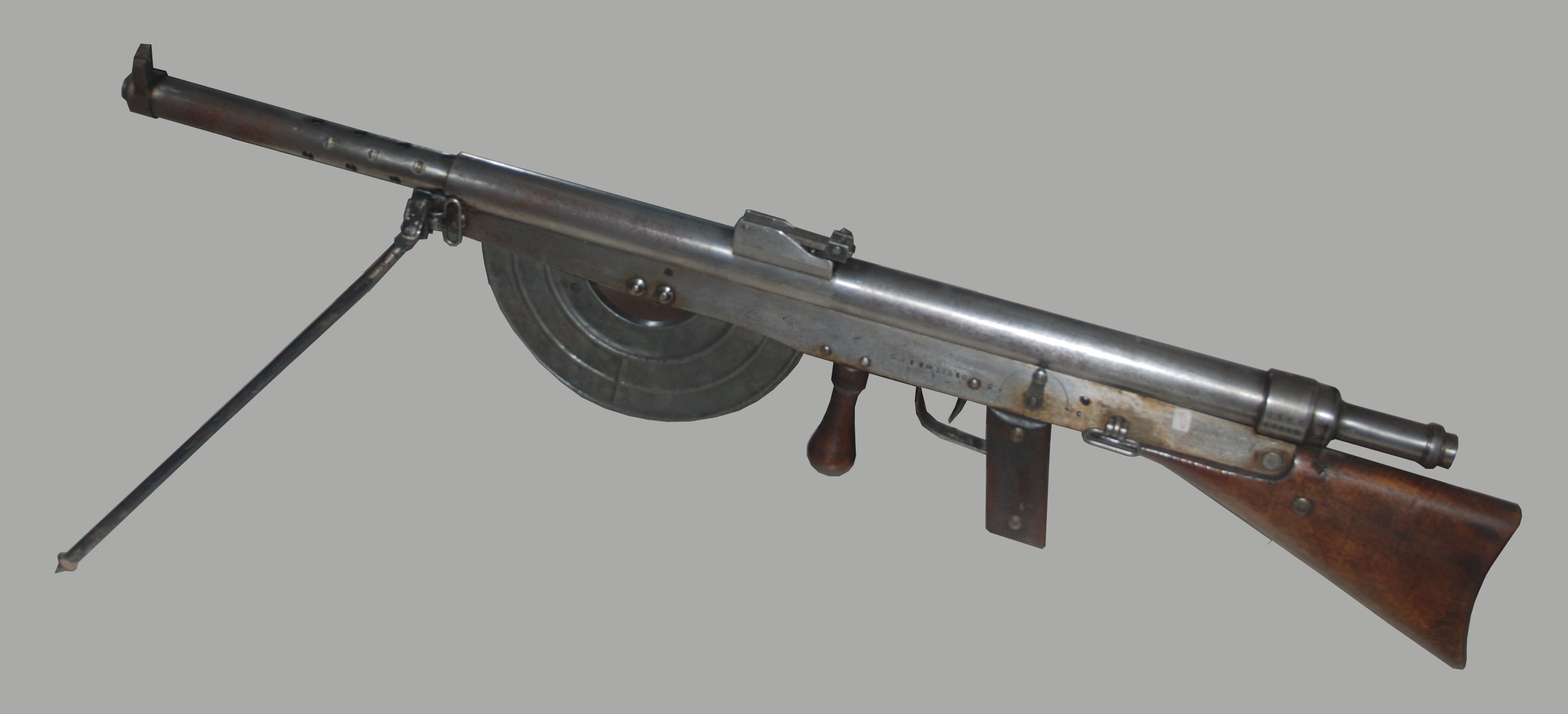 French machine gun Chauchat; the Verdun Memorial, Fleury-devant-Douaumont, France